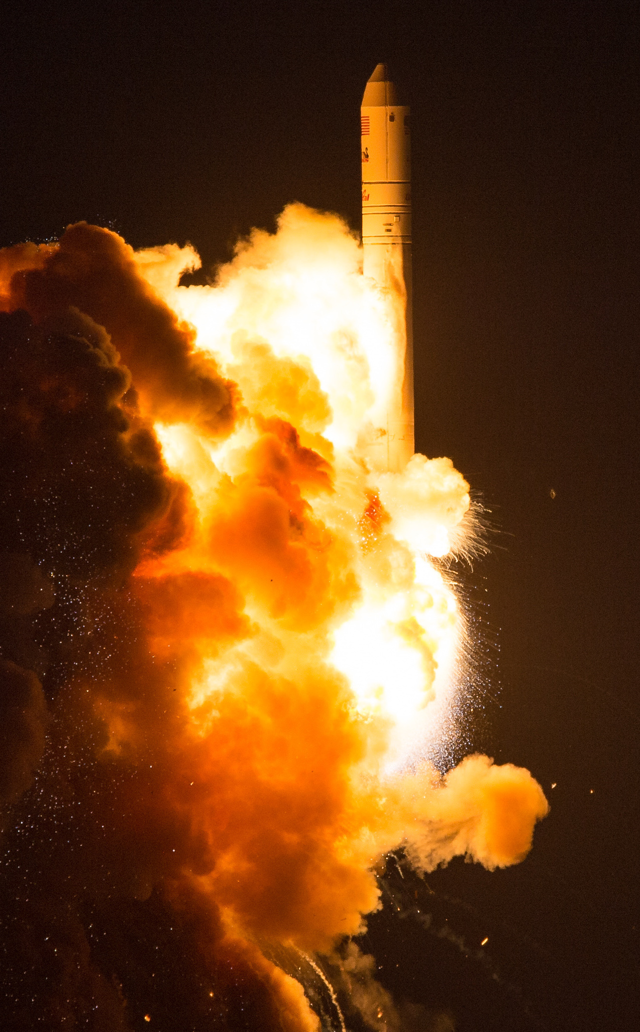 The Orbital ATK Antares rocket, with the Cygnus spacecraft onboard suffers a catastrophic anomaly moments after launch from the Mid-Atlantic Regional Spaceport Pad 0A, Tuesday, Oct. 28, 2014, at NASA's Wallops Flight Facility in Virginia. The Cygnus spacecraft was filled with supplies slated for the International Space Station, including science experiments, experiment hardware, spare parts, and crew provisions.